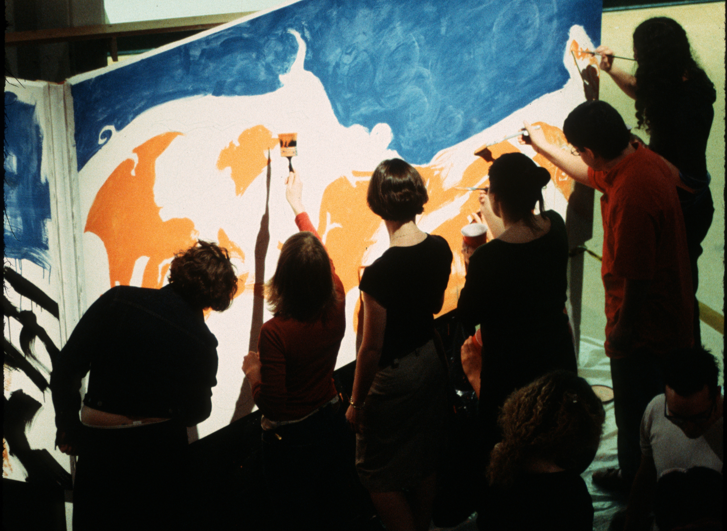 Participants help paint one of the 9ft x 5 ft frames of The 1 Second Film's animation.